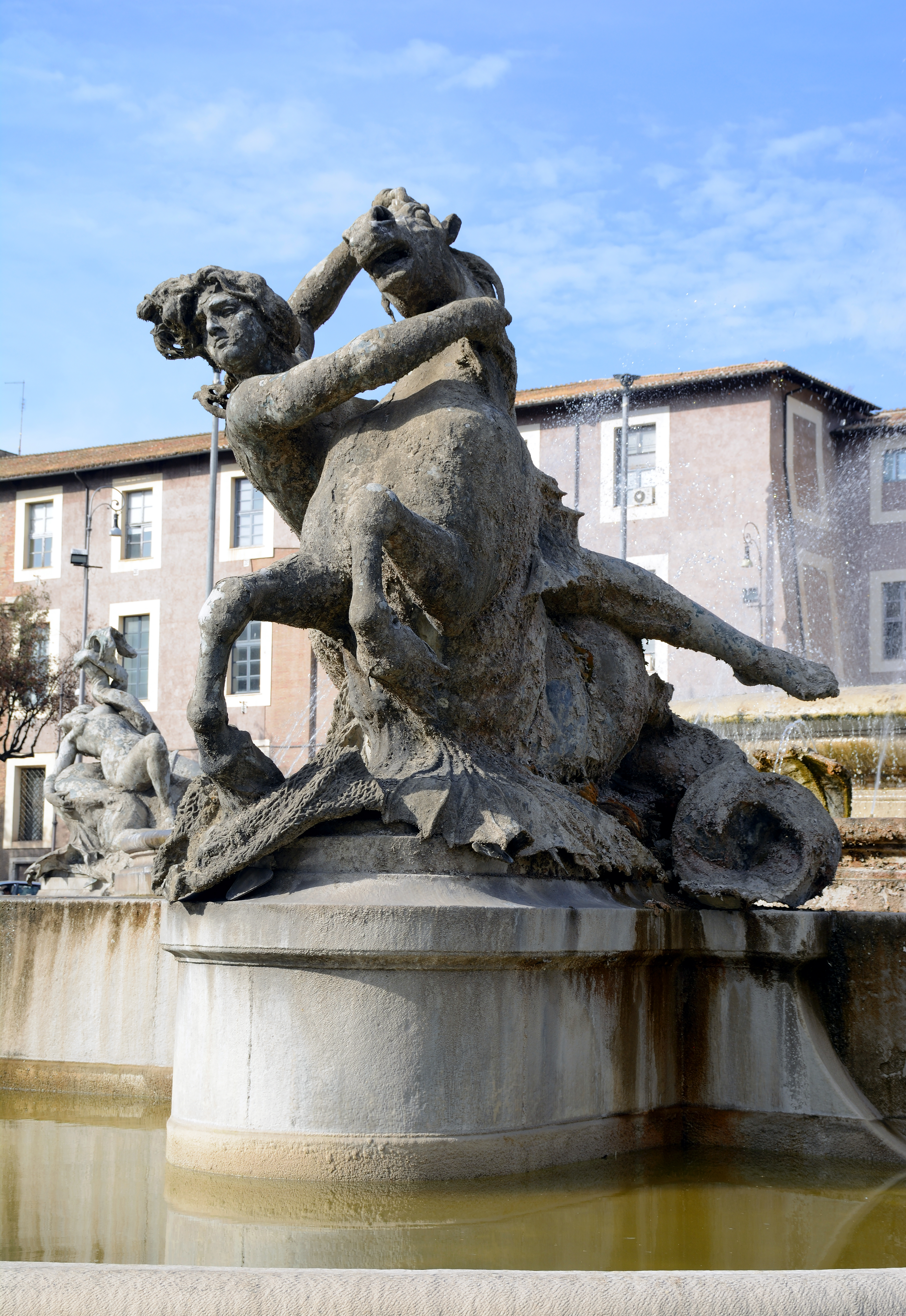 Nymph of the Oceans in Fontana delle Naiadi (Rome) east view